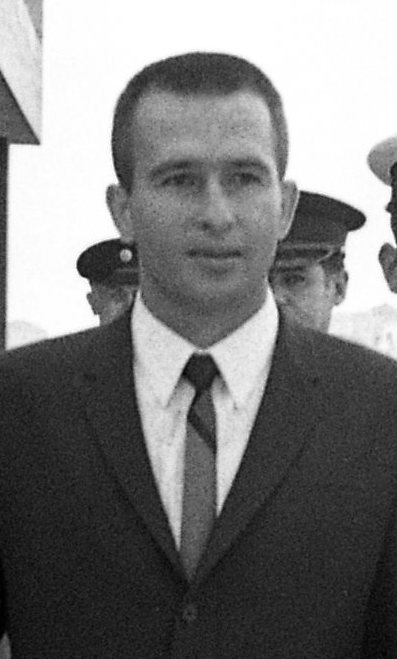 Denis Michael Rohan trial.